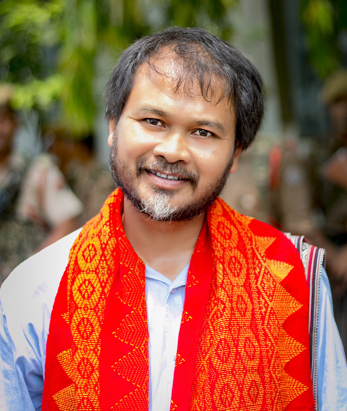 Akhil Gogoi (Assamese: অখিল গগৈ) is a peasant leader and RTI activist from Assam. Over the years he has been leading many anti-graft movements in the state.